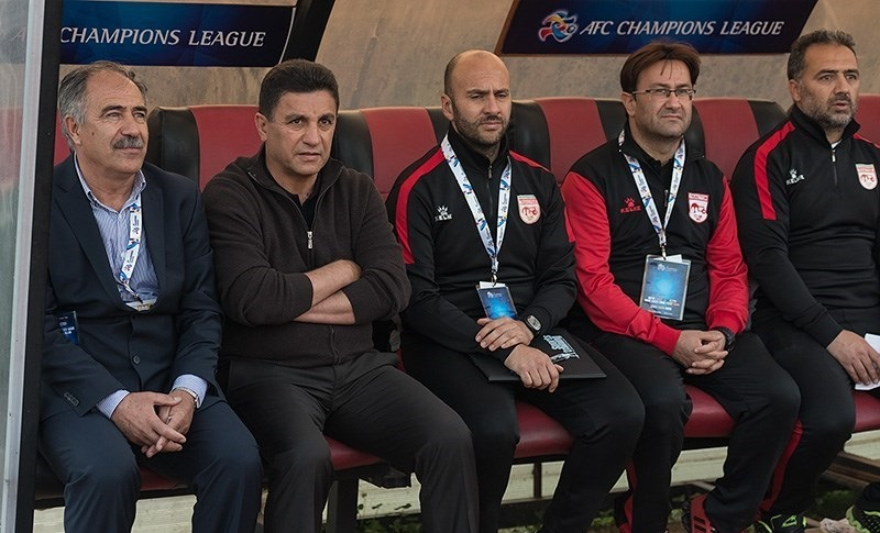 Tractor Sazi coaching staff